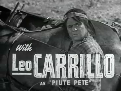 Leo Carrillo in 20 Mule Team, by Richard Thorpe (1940)